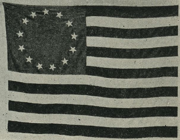 The American flag that circumnavigated the globe with Captain Gray on the Columbia.